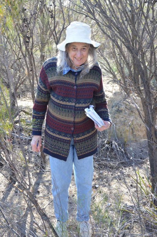 Photo of Prof. Barbara York Main at North Bungulla Reserve, Western Australia taken in 2015 by Prof. Grant Wardell-Johnson, during her last survey. #16 - the world's oldest recorded spider - was still alive at the time of this photo, but died the following year at 43 years old.